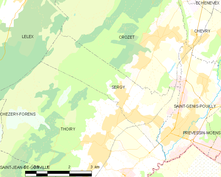 Map of French commune: Sergy Map commune FR insee code 01401.png